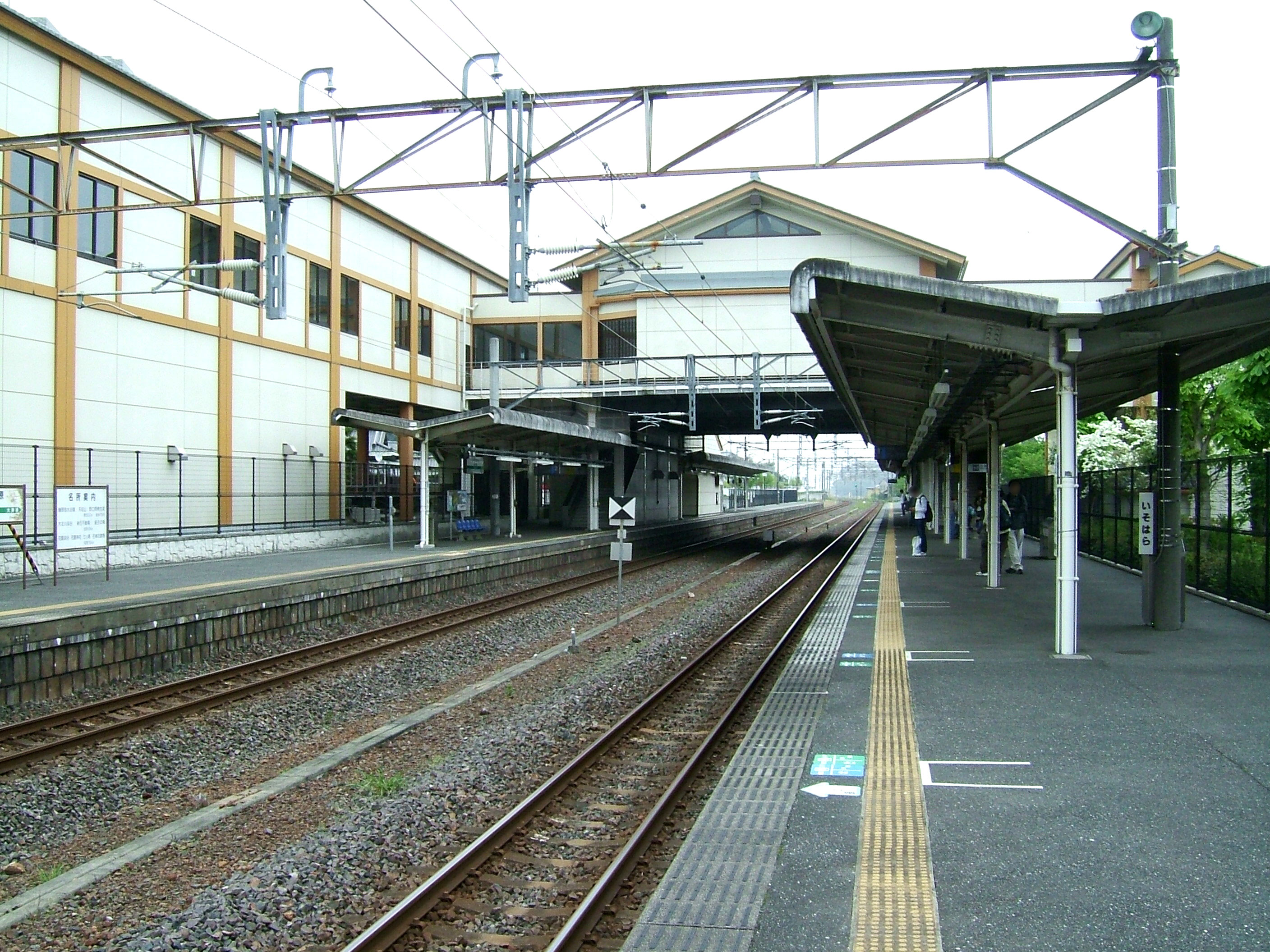 Isohara Station platform (East Japan Railway Jōban Line)